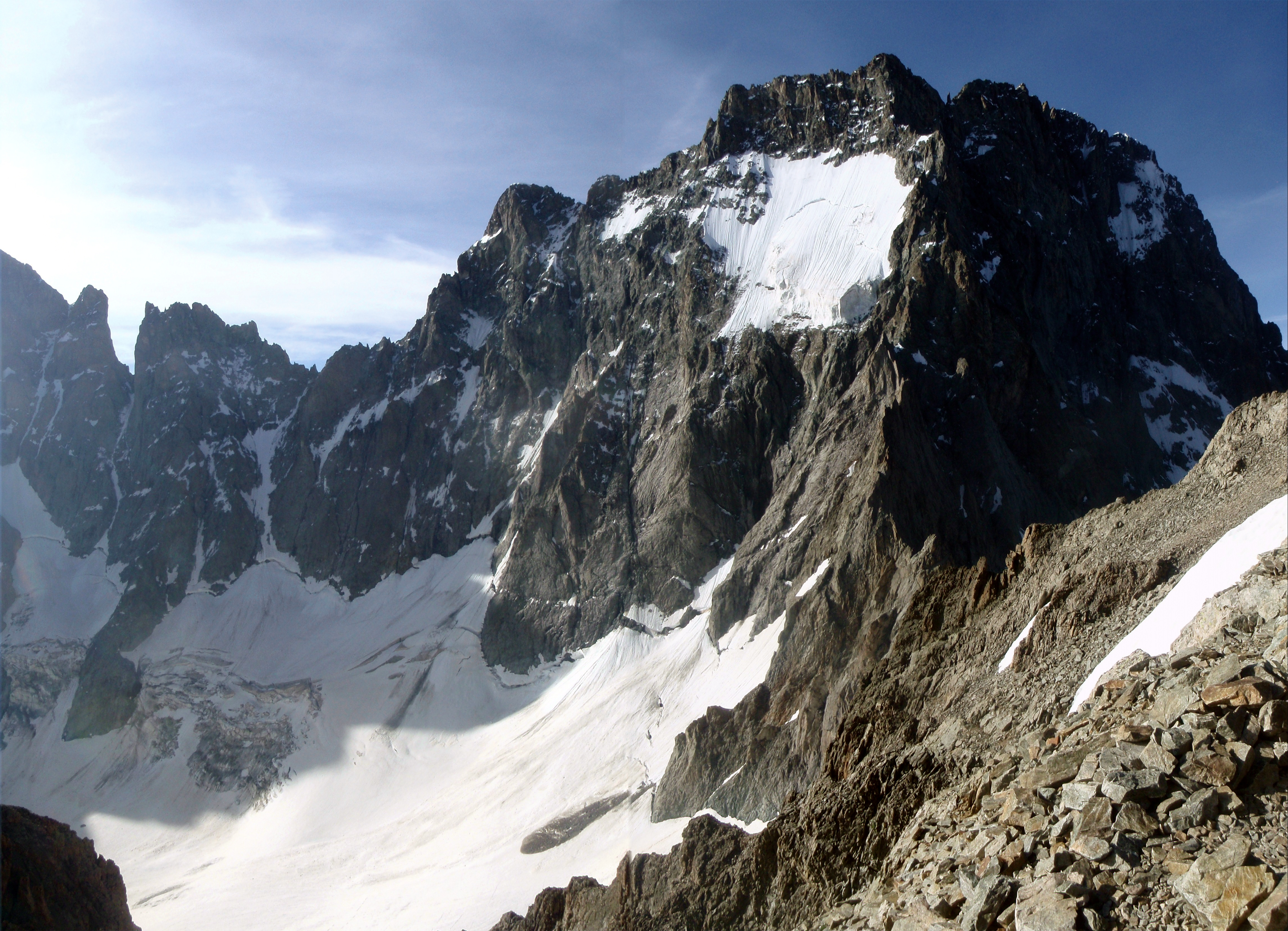 Ailefroide, 3.956 m, above the southern branch of Glacier Noir, Hautes Alpes, France, as seen from Col de la Temple, 3.322 m. Photo was taken 12/07/2010.